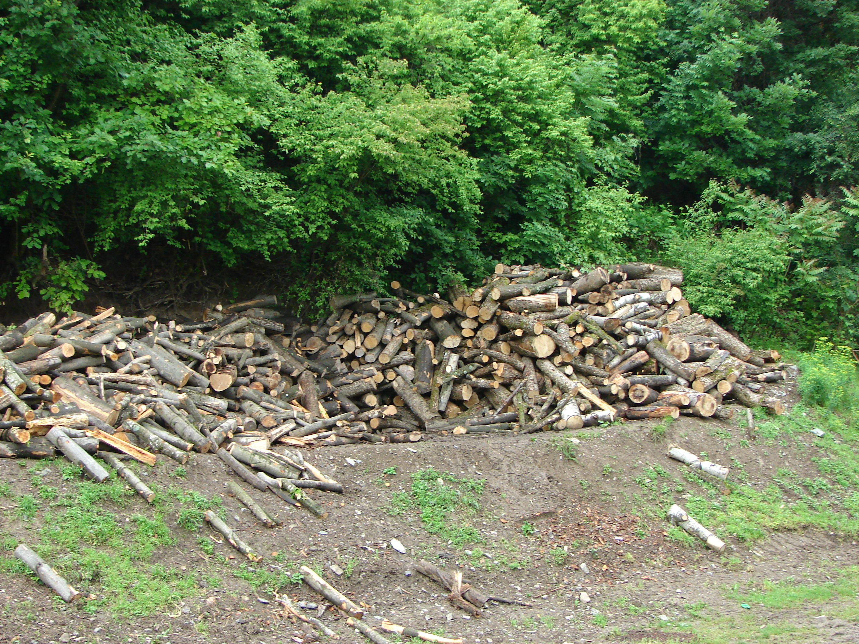 Deforestation of an old growth forest in Armenia's northern Lori province, to make way for the Teghut Copper-Molybdenum Mine.